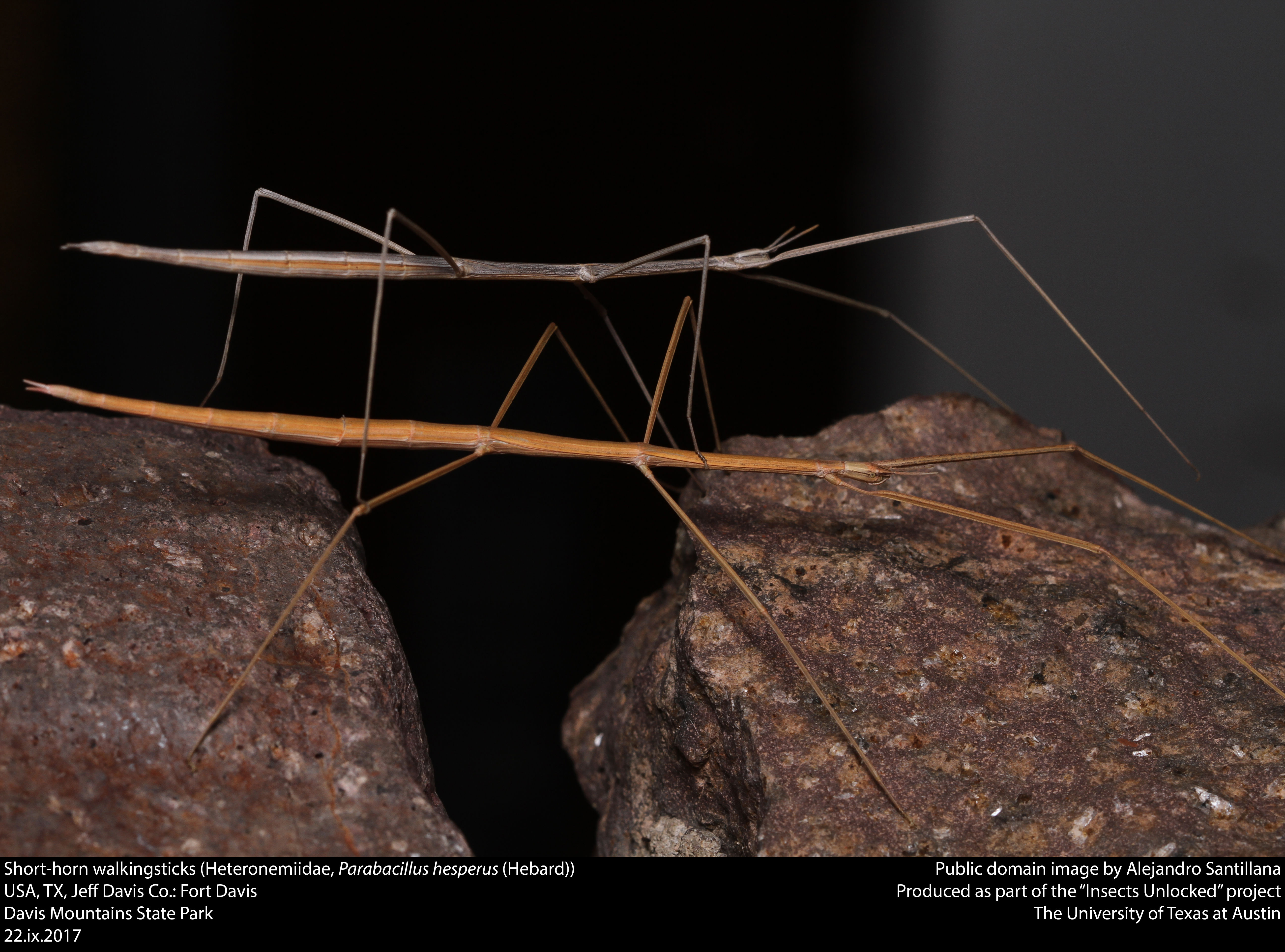 Short-horn walkingsticks (Heteronemiidae, Parabacillus hesperus (Hebard)) USA, TX, Jeff Davis Co.: Fort Davis Davis Mountains State Park 22.ix.2017 This image was created as part of the Insects Unlocked project at the University of Texas at Austin. Based in the UT insect collection at Brackenridge Field Laboratory, part of the Department of Integrative Biology. Do not crop: This image is used on one or more sister projects, where its entire contents are wanted. If you crop it, please save the new image separately, and do not overwrite this